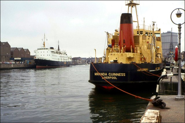 Ships on the Liffey, Dublin. To any Dubliner under 20 this will be incomprehensible. On the left, at the Custom House Quay, is the car ferry “Lady of Mann” awaiting departure for Douglas. On the right, at Sir John Rogerson’s Quay, is the “Miranda Guinness”. She conveyed the product of St James’s Gate to Liverpool.